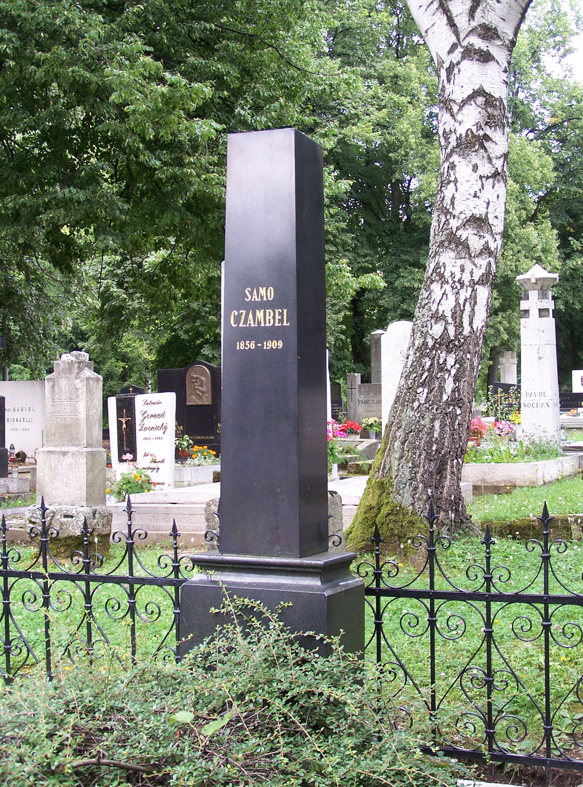 Grave of Samo Czambel at the National Cemetery in Martin, Slovakia